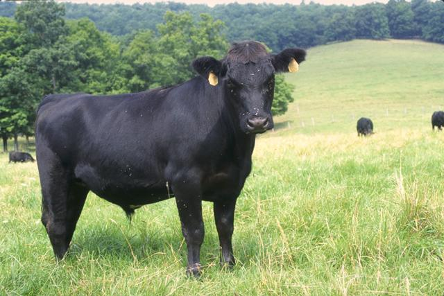 Angus cattle 24 from Thumbnail Image Number: 96cs3430 CD2403-029 Black Angus steer standing in pasture. USDA Photo by: Larry Rana